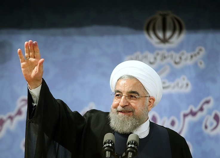 Hassan Rouhani registering for the 2017 Iranian presidential election candidacy